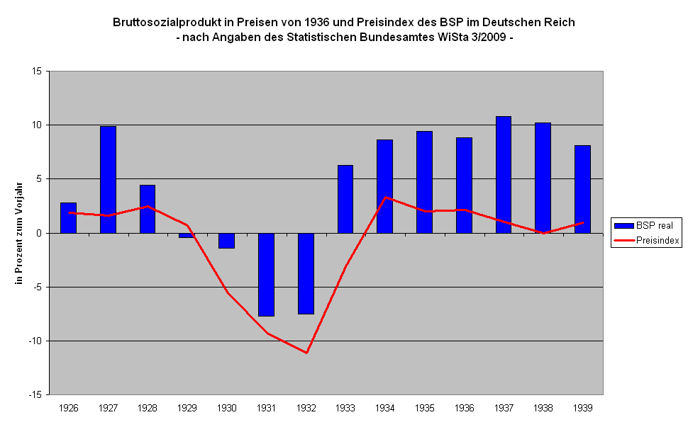 Gross national product (inflation adjusted) and price index in German Reich around World Depression